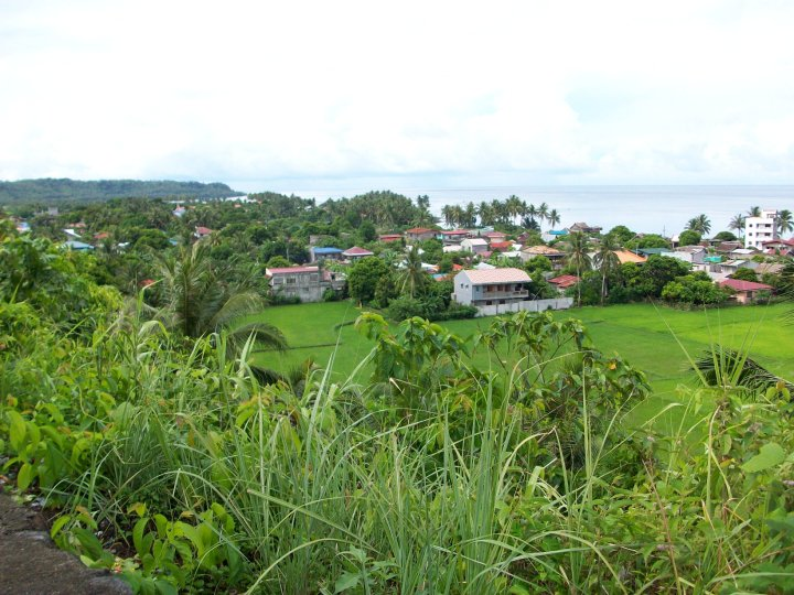 Skyline of downtown Bulusan, a town (municipality) in Sorsogon province, the Philippines.